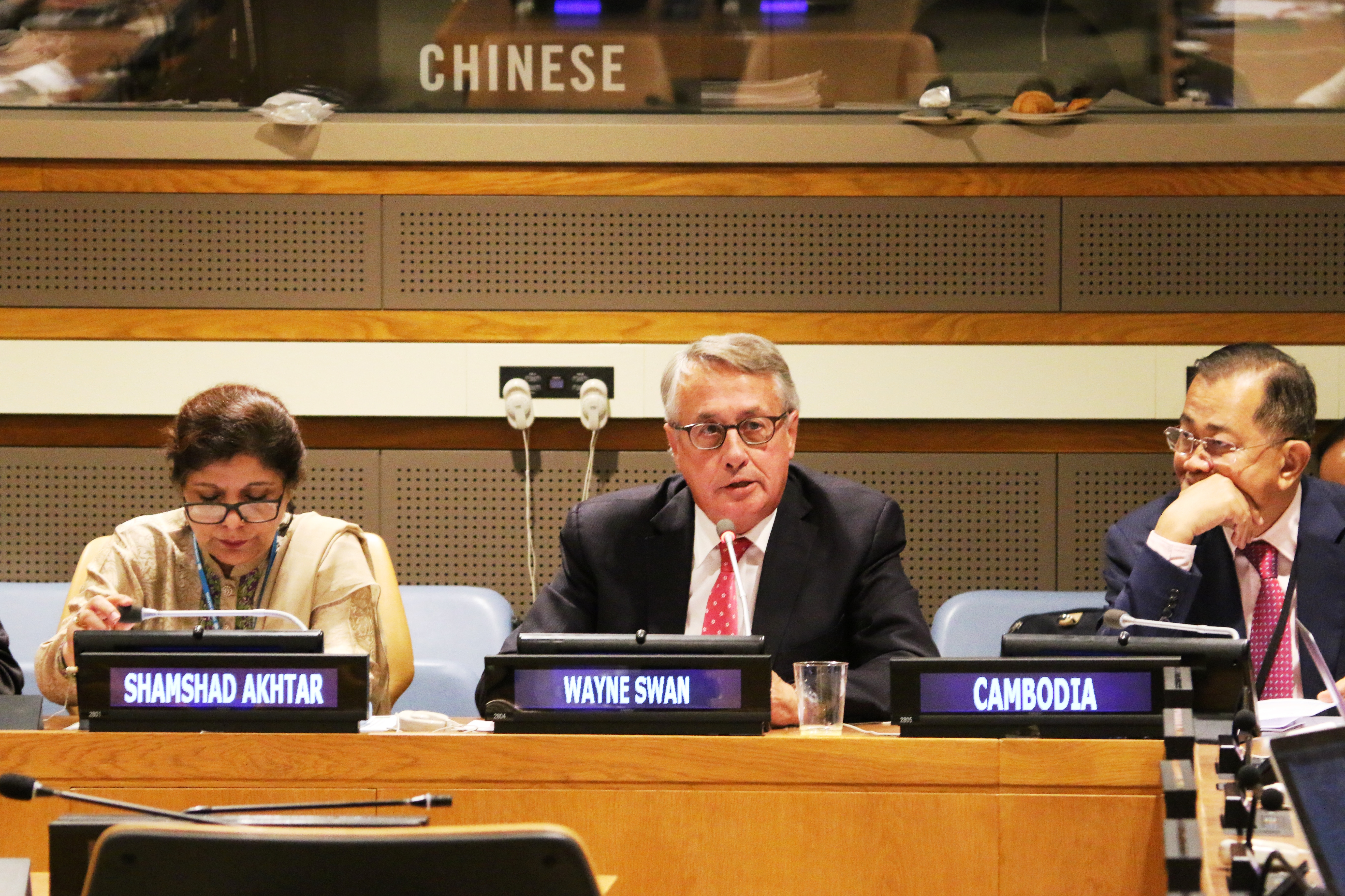 5th Biennial High-Level Meeting of the Development Cooperation Forum Side Event: Adaptation of the 2030 Agenda for Sustainable Development and the Role of Development Cooperation in Asia and the Pacific was organized as a high-level panel discussion on 21 July 2016 from 1:15 PM to 2:30 PM. Dr. Shamshad Akhtar, Under-Secretary General of the United Nations and Executive Secretary of ESCAP moderated the session. The meeting was chaired by Mr. Gyan Chandra Acharya, Under-Secretary-General of the United Nations and High Representative for OHRLLS. The panel included finance ministers and senior Ministers from the Asia-Pacific region, an expert, and a private sector and a CSO representative.